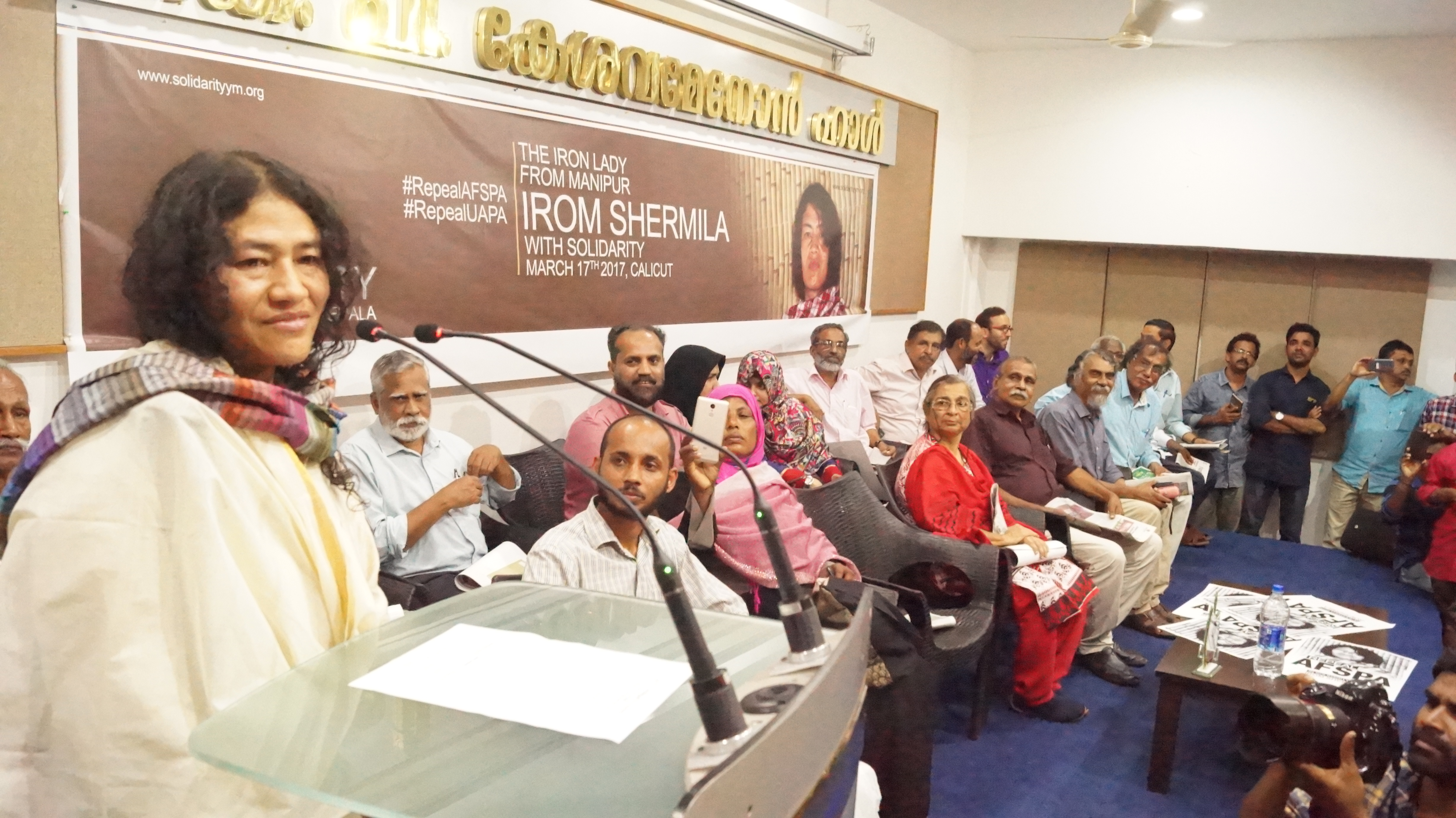 irom sharmila